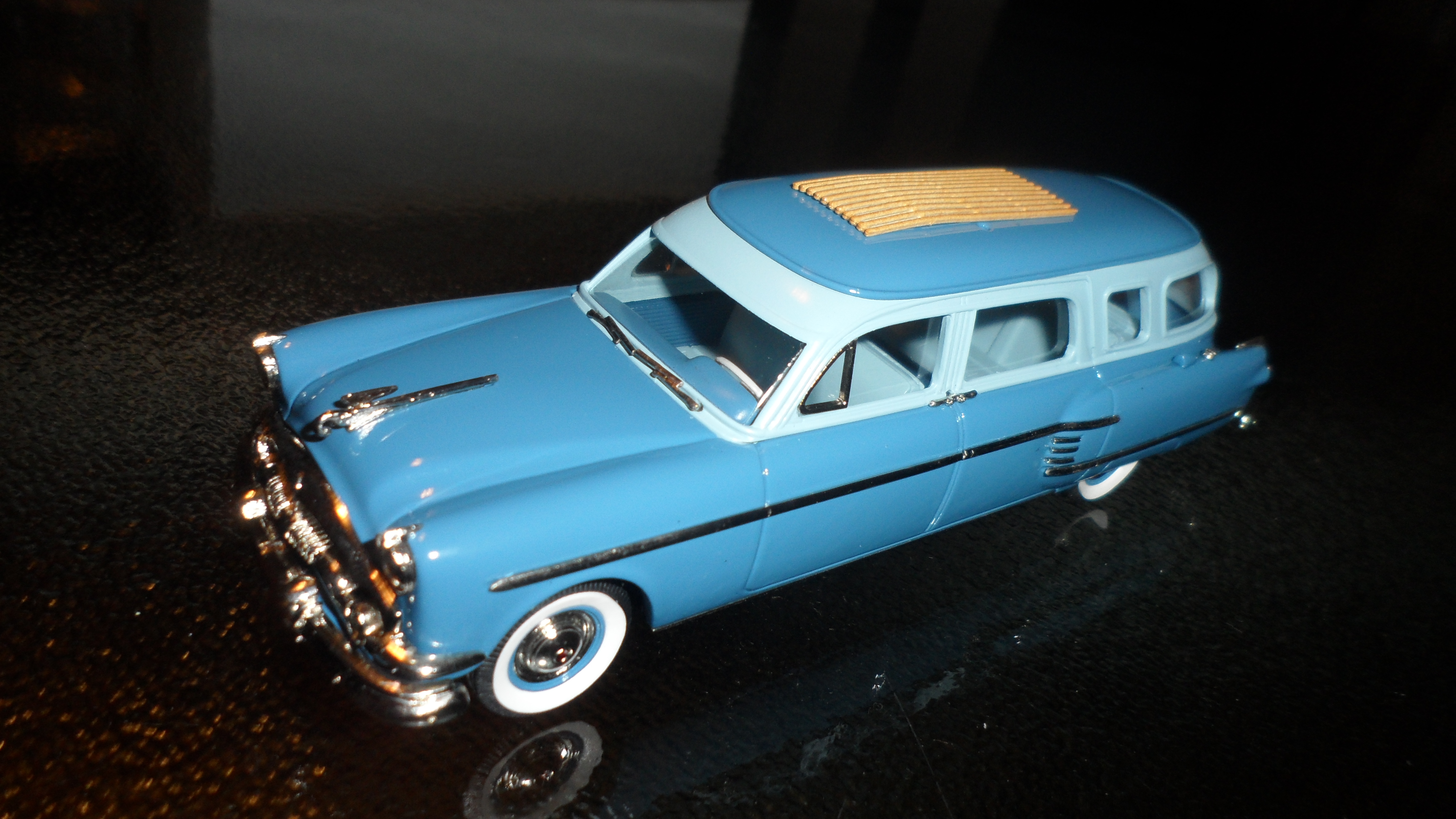 Collector's model of the 1954 Henney-Packard Super Station Wagon in white metal, painted two-tone blue. Made by Brooklin Models (No. brk-190). Scale 1/43